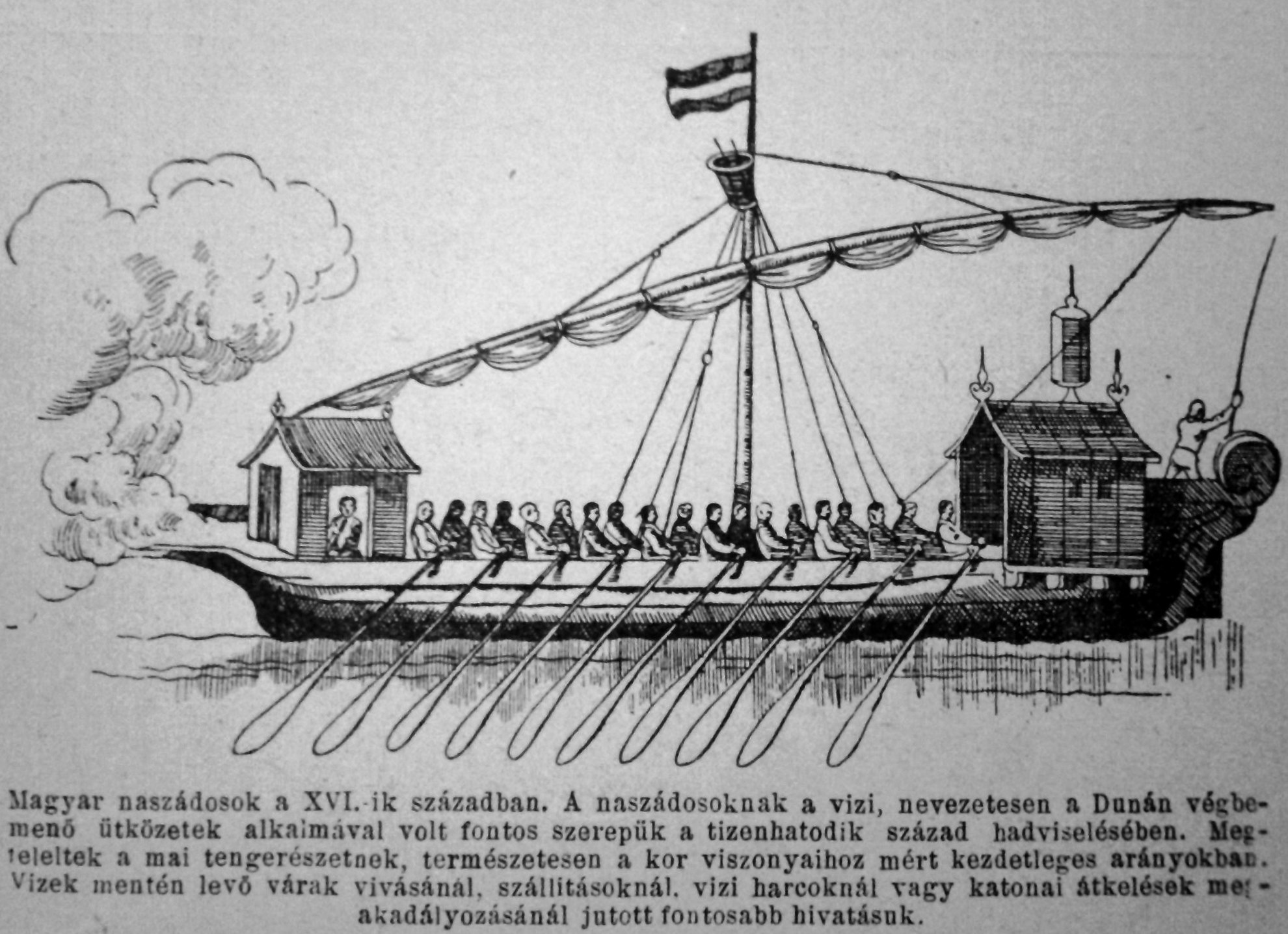 Ship on the Danube river in 16th century, book illustration in (1908) by Joris Hoefnagel